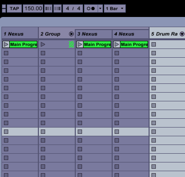 Ableton Live